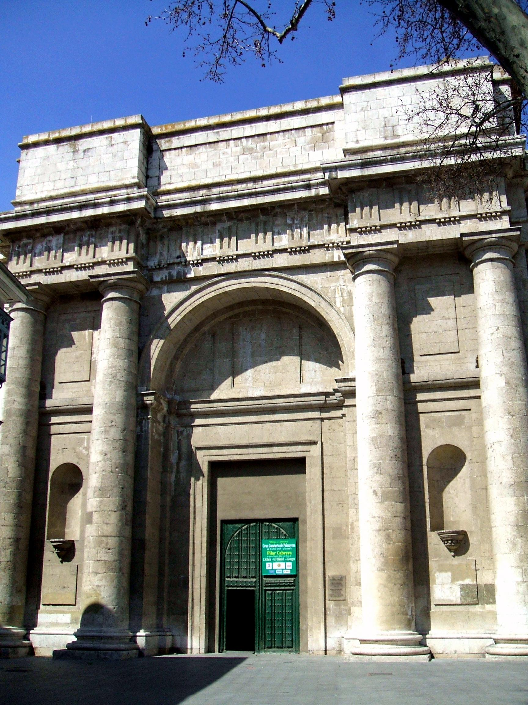 Catedral de Valladolid (Castilla y León, España)